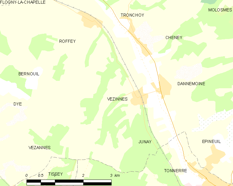 Map of French municipality Vézinnes